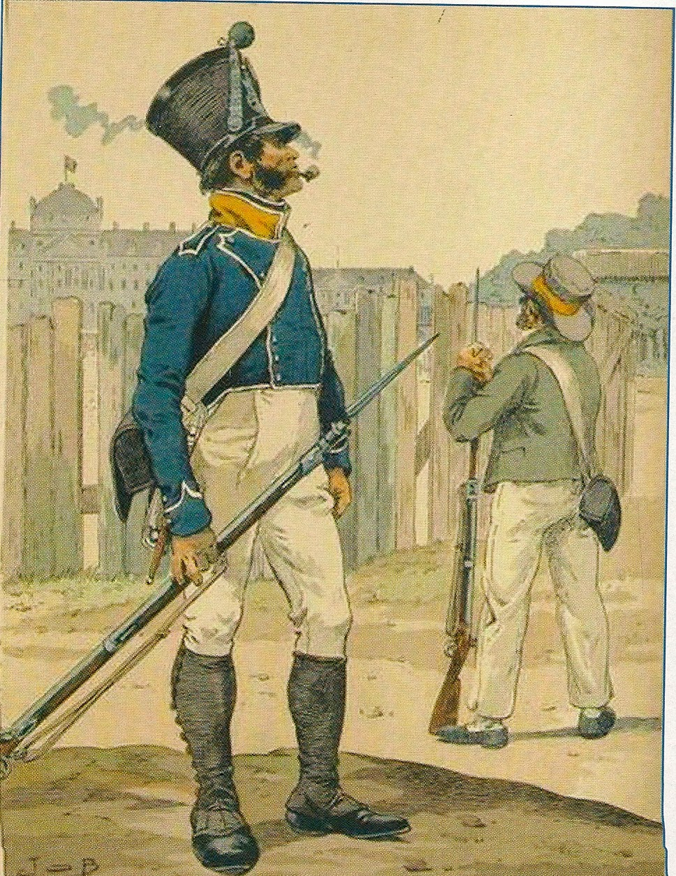 Jacques Onfroy de Bréville. Last imperial units 1815